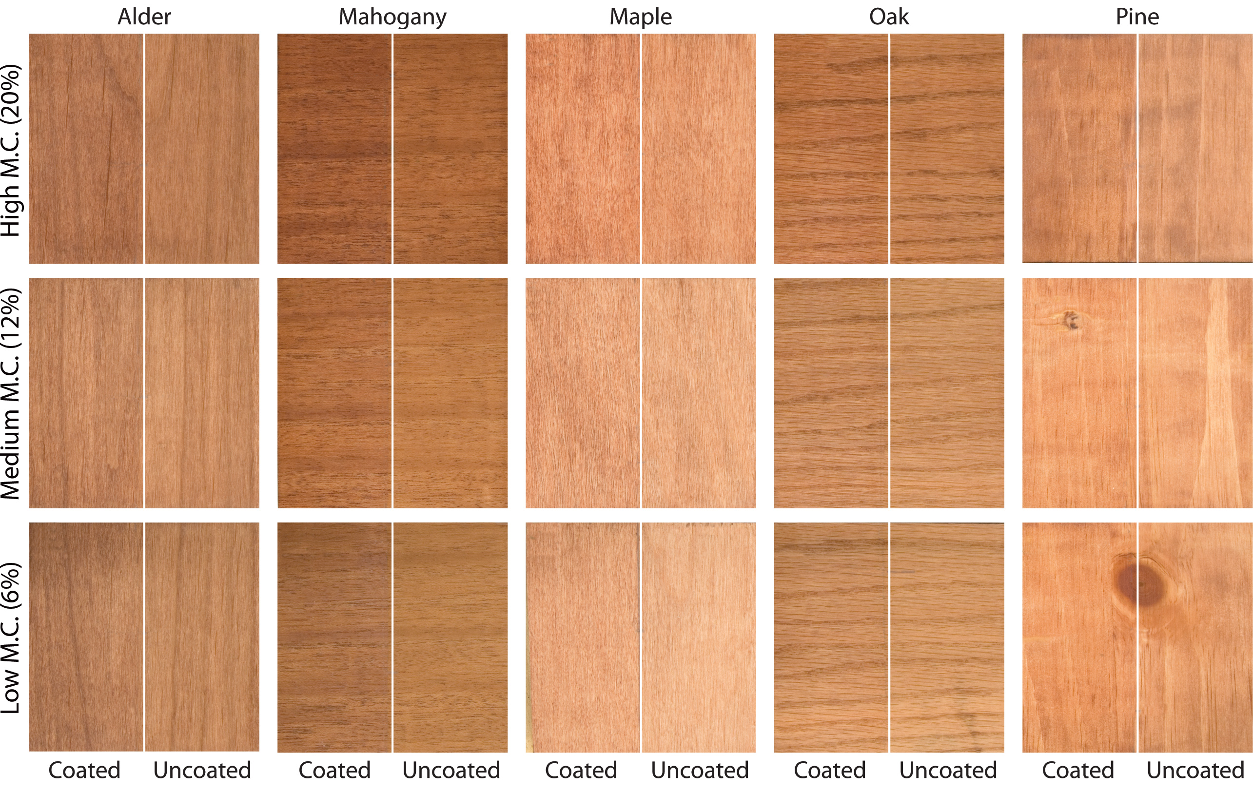 finishes